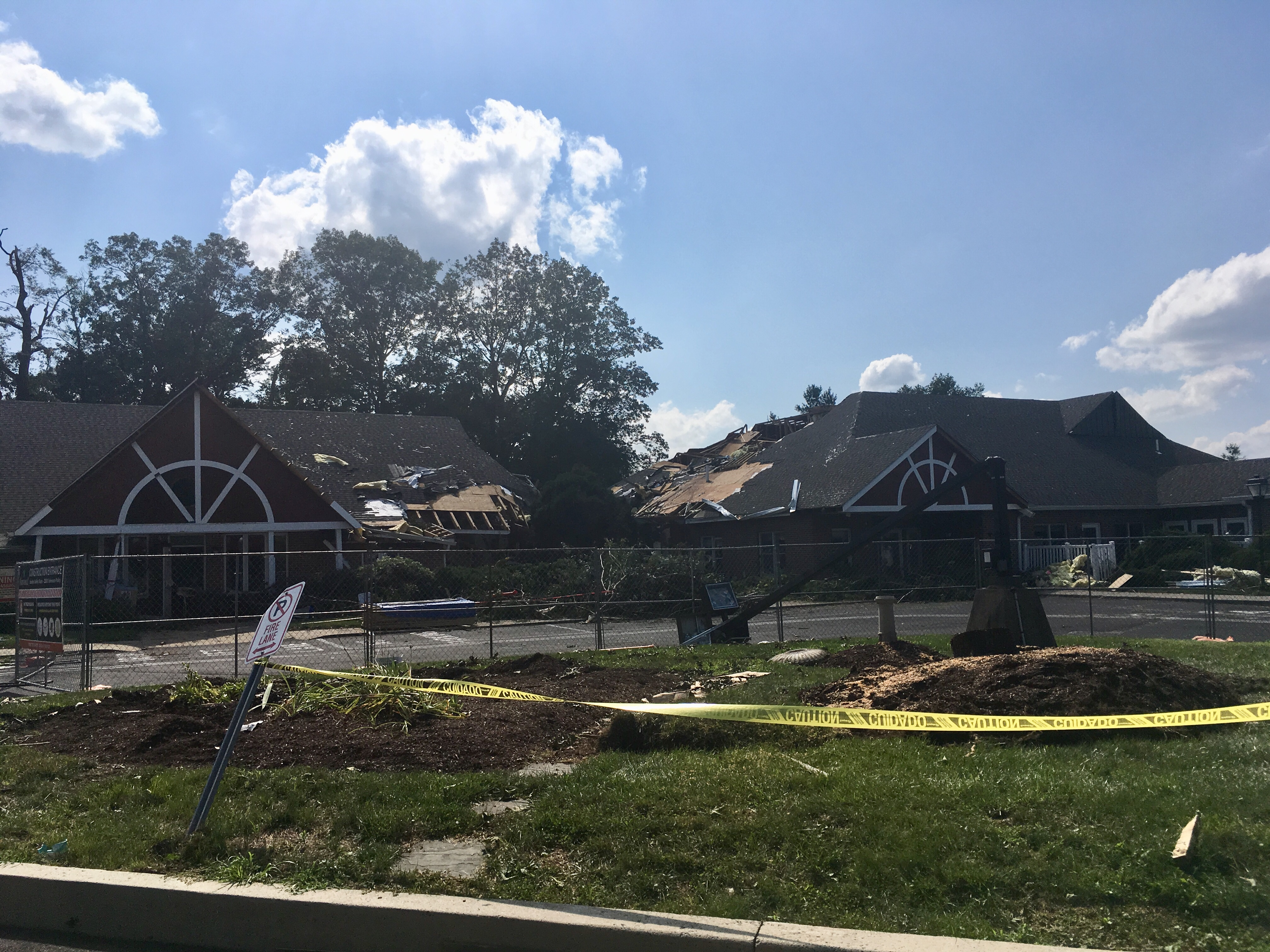 Damage to the Children's Village Day Care center at Doylestown Hospital in Doylestown, Pennsylvania caused by an EF2 tornado spawned by Hurricane Isaias